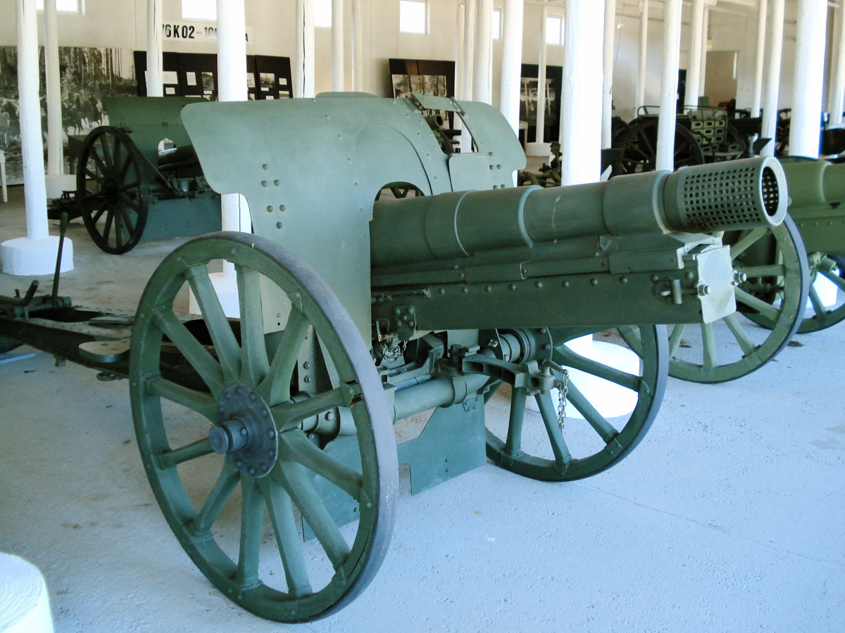 Soviet 122 mm howitzer Model 1909-1937, displayed in Hämeenlinna Artillery Museum. This particular gun was manufactured in St. Petersburg and Perm in 1910. The Model 1909 howitzer was based on a German Krupp design. They were produced in Imperial Russia and then in the Soviet Union. As was typical for most World War I artillery pieces, the gun was modernised from 1937 onwards, the resulting guns called Model 09-37. Photo taken on June 18, 2006. Source: Photo by me, User:Balcer.